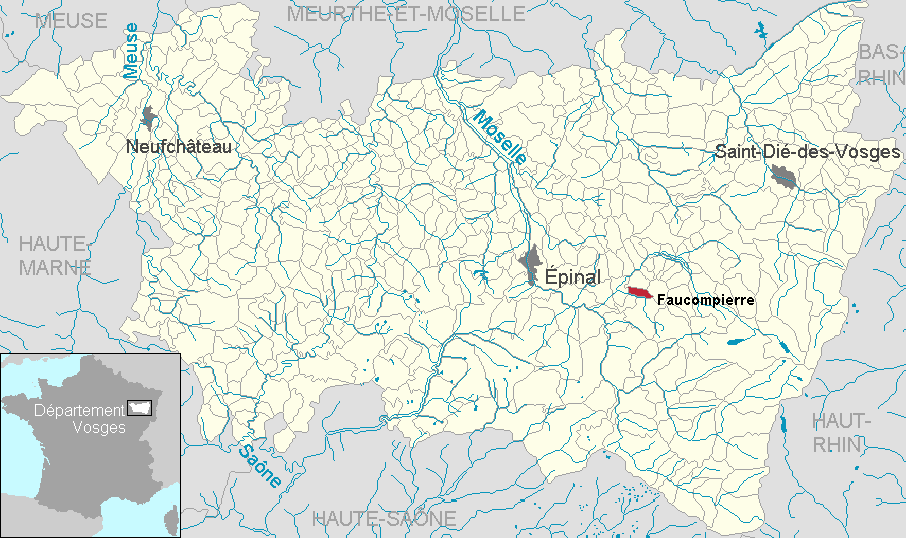 Faucompierre in the department of Vosges, Lorraine, France